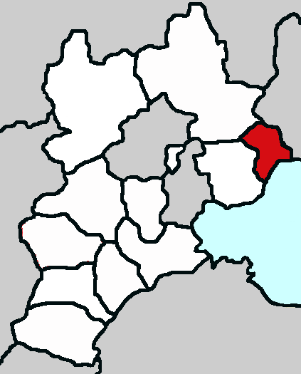 Qinhuangdao city of Hebei provinde,China. Made by myself